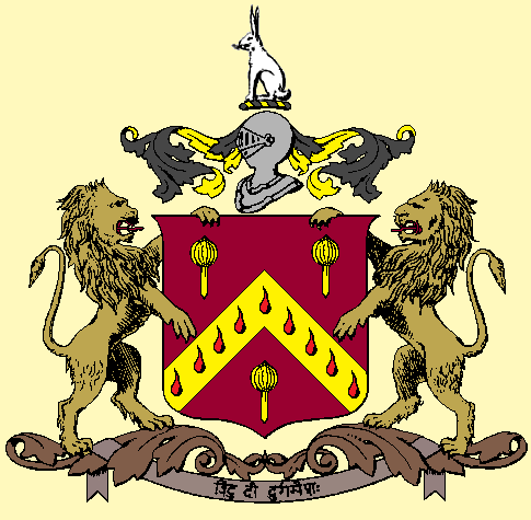 Orchha State Coat of Arms This work is in the public domain in India because its term of copyright has expired. The Indian Copyright Act applies in India, to works first published in India. According to The Indian Copyright Act, 1957 (Chapter V Section 25), Anonymous works, photographs, cinematographic works, sound recordings, government works, and works of corporate authorship or of international organizations enter the public domain 60 years after the date on which they were first published, counted from the beginning of the following calendar year (ie. as of 2019, works published prior to 1 January 1959 are considered public domain). Posthumous works (other than those above) enter the public domain after 60 years from publication date. Any other kind of work enters the public domain 60 years after the author's death. Text of laws, judicial opinions, and other government reports are free from copyright. Photographs created before 1959 are in the public domain 50 years after creation, as per the Copyright Act 1911. This file may not be in the public domain outside India. The creator and year of publication are essential information and must be provided. See Wikipedia:Public domain and Wikipedia:Copyrights for more details. This image shows a flag, a coat of arms, a seal or some other official insignia. The use of such symbols is restricted in many countries. These restrictions are independent of the copyright status.